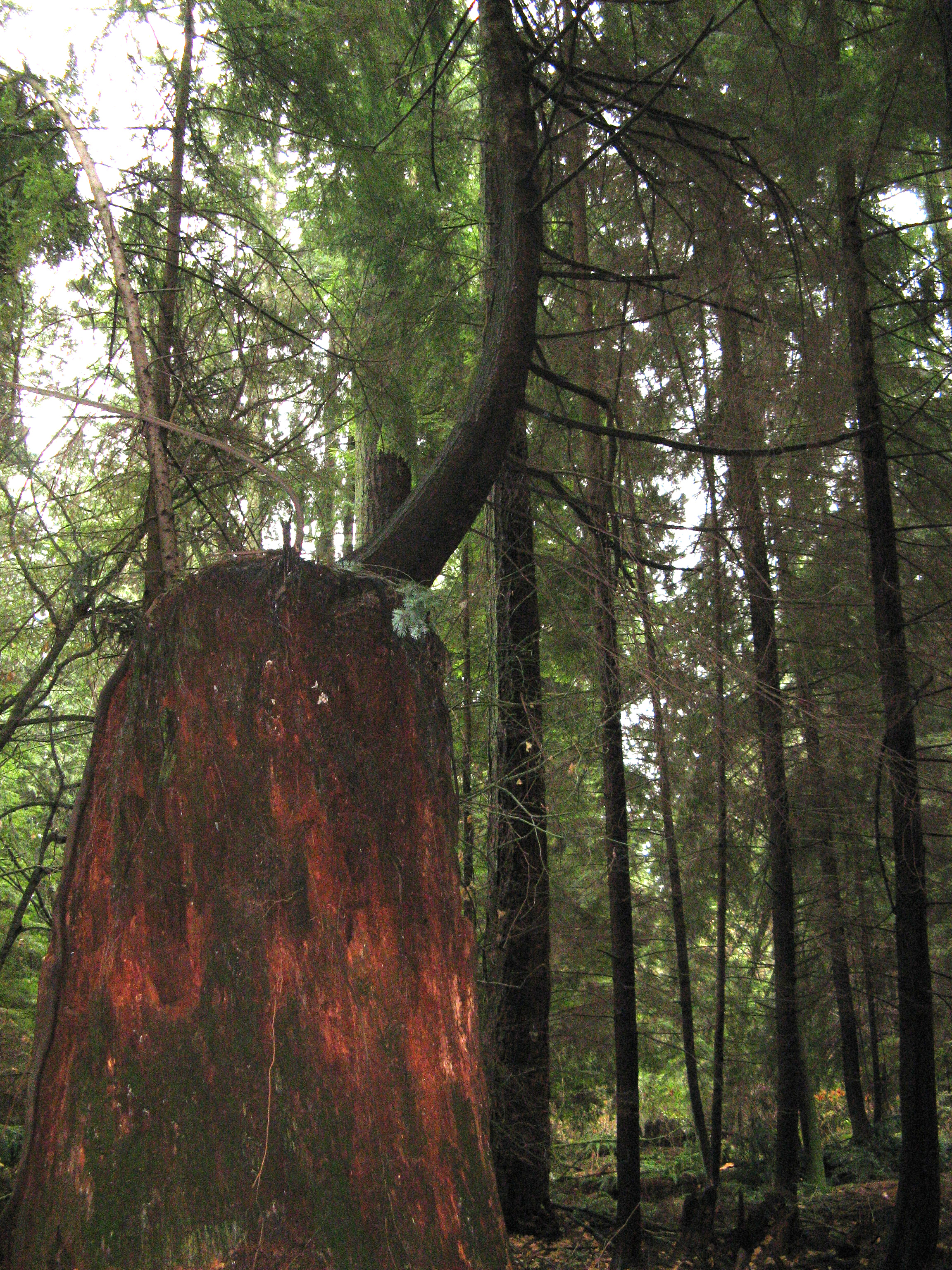 Tree damaged by Typhoon Frieda, Stanley ParkVancouver, BC, Canada